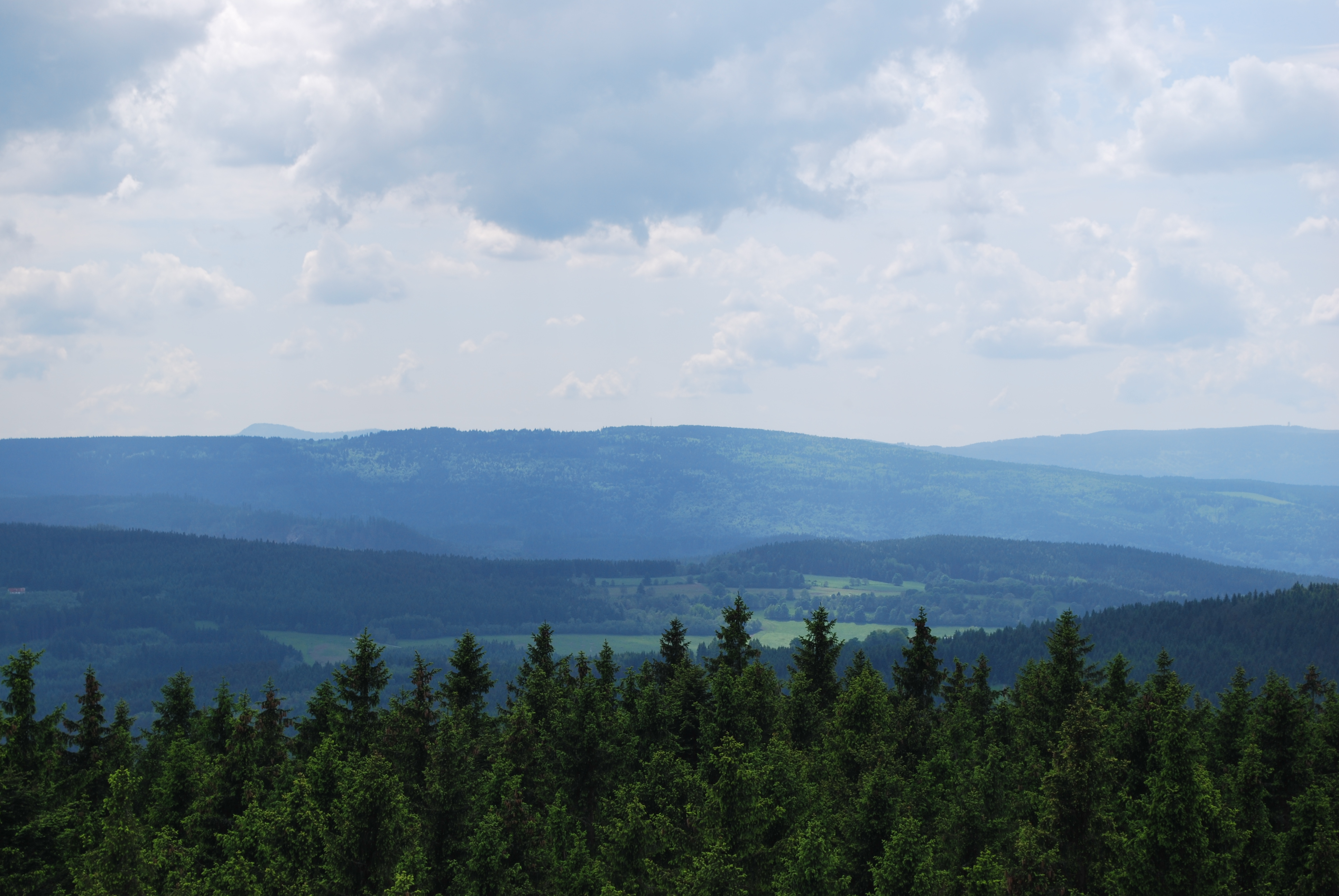 View to the Huťská hora hill. Klostermann watch tower near Javorník village in Prachatice District, Czech republic. This photograph was taken within the scope of the 'Czech Municipalities Photographs' grant.